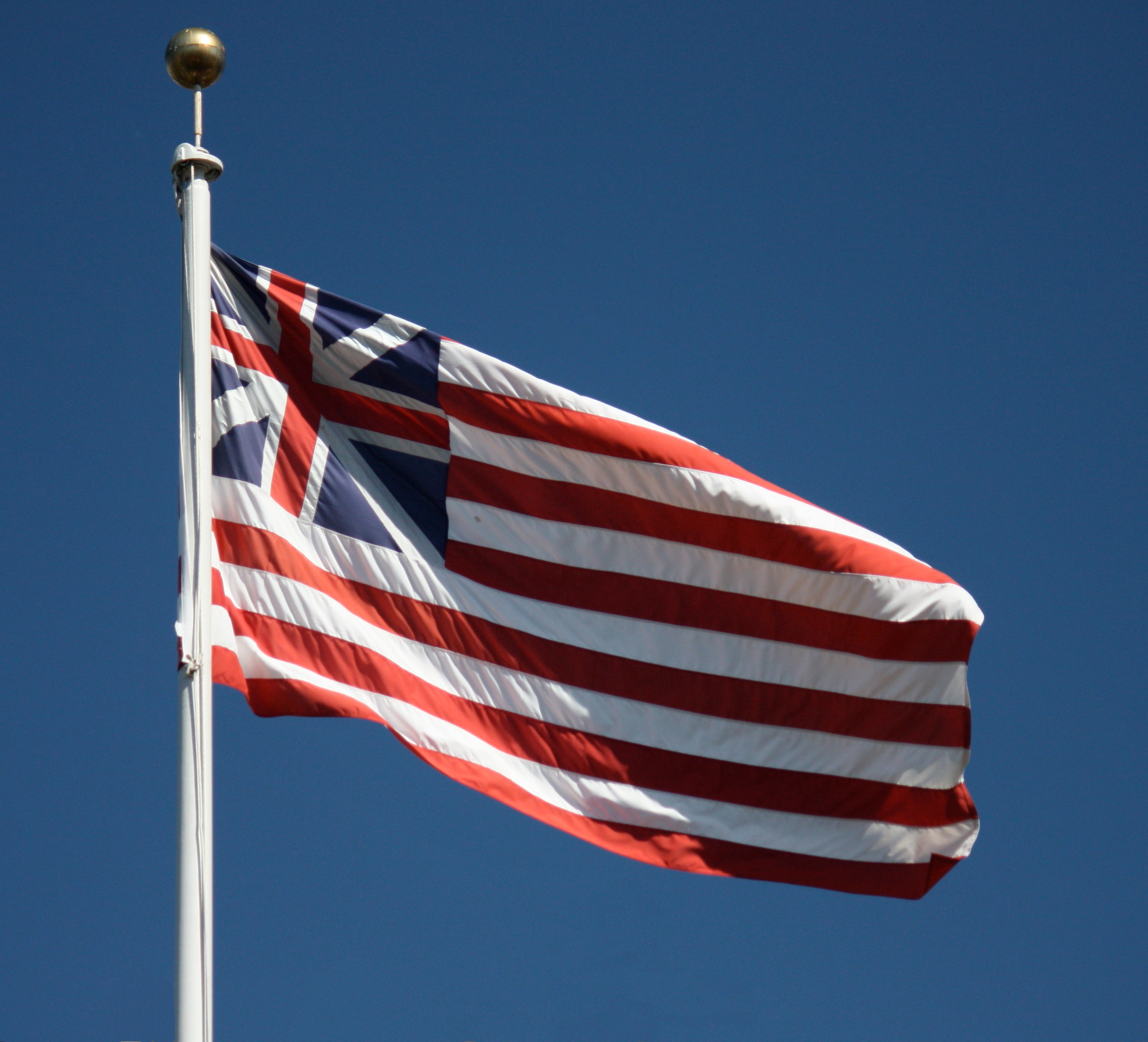 A replica Grand Union Flag flying outside City Hall in San Francisco, California